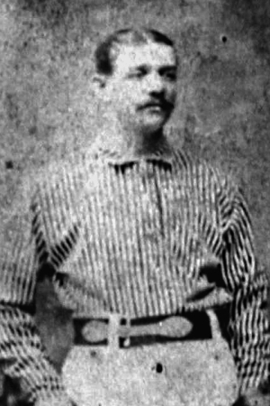 Tom York in 1885 with the Baltimore Orioles.